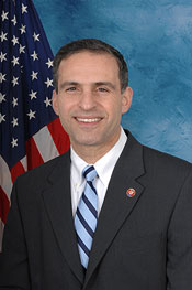 Mike Arcuri, member of the United States House of Representatives.